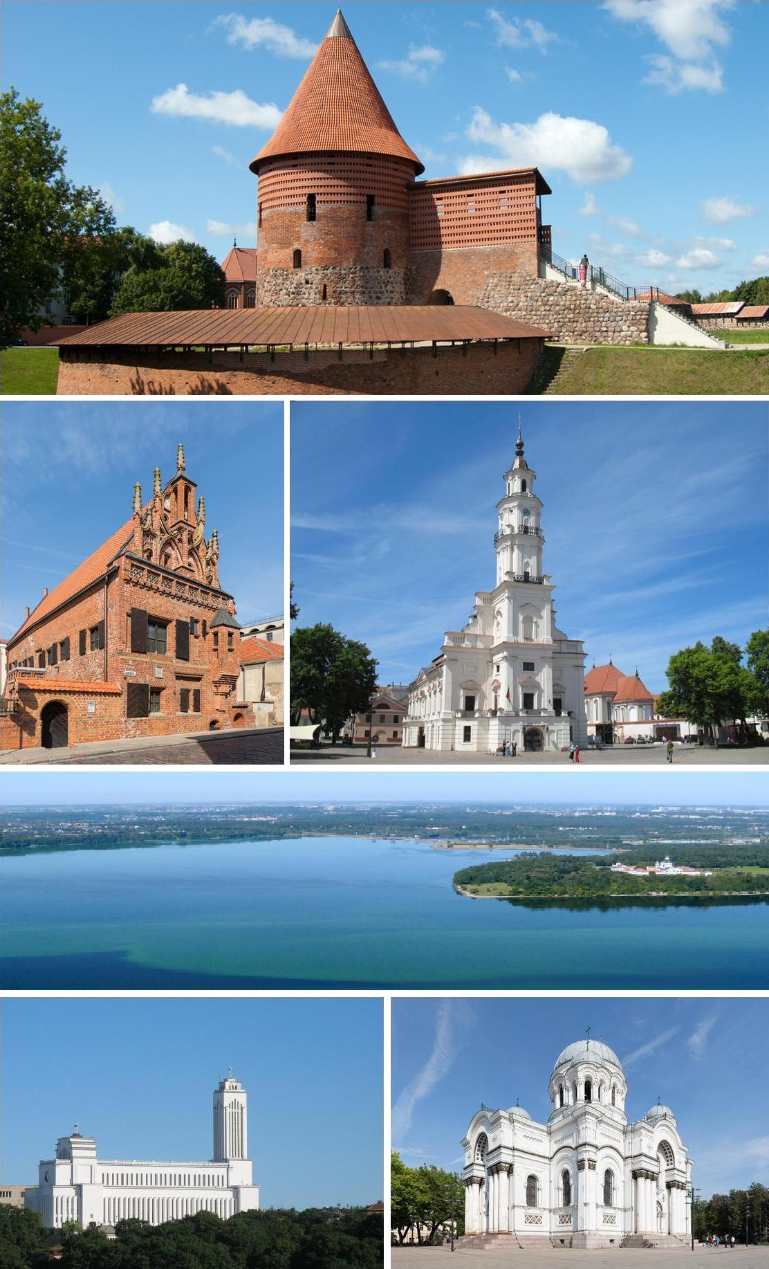 Montage of Kaunas pictures on Commons.